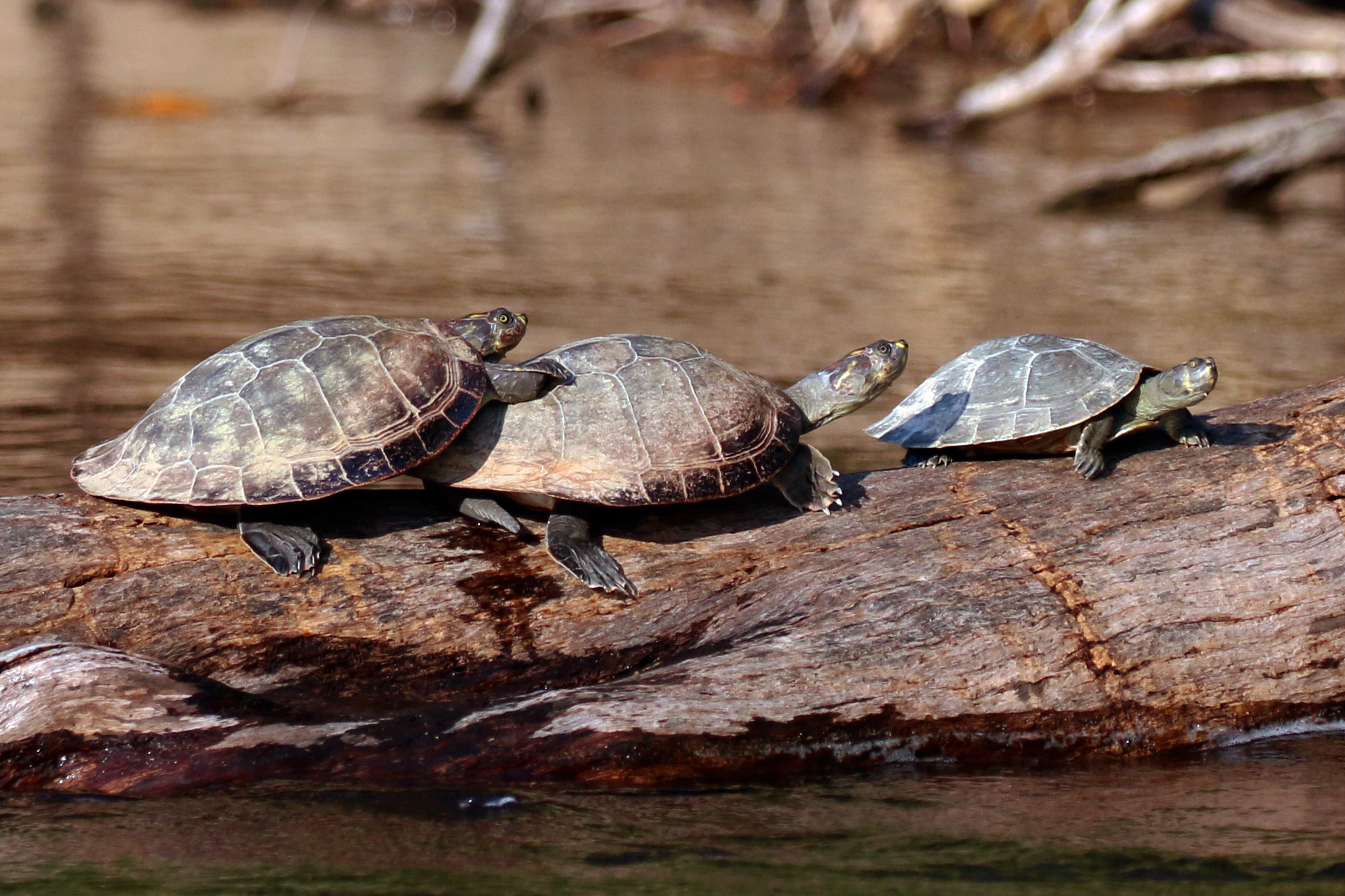 Yellow-spotted river turtles (Podocnemis unifilis), Cristalino River, Southern Amazon, Brazil